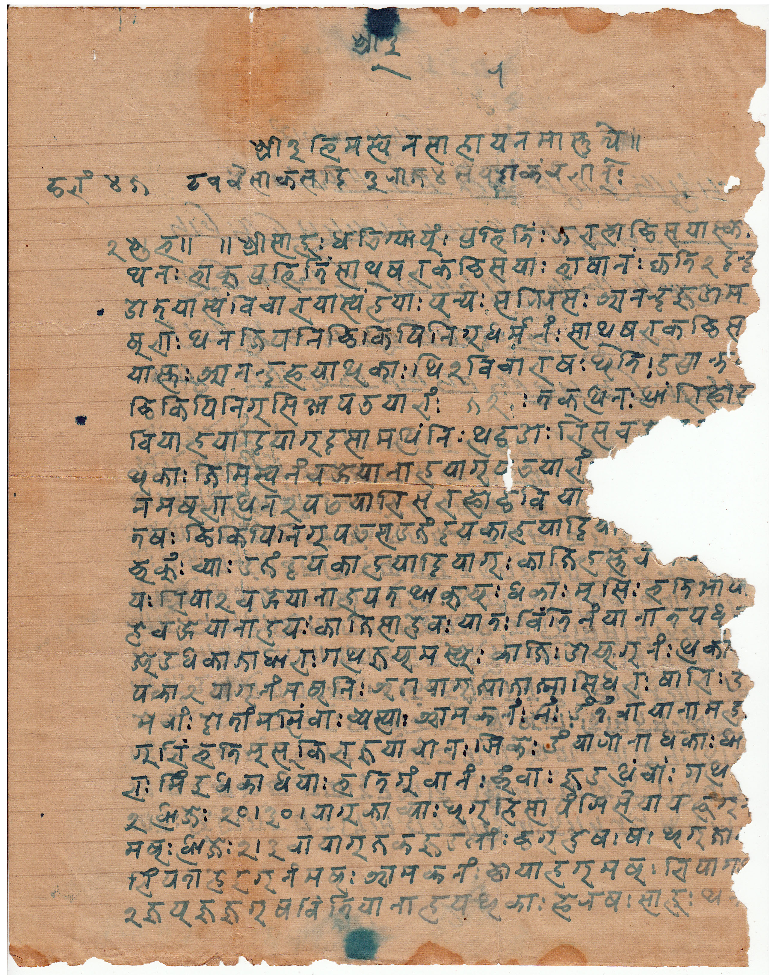 Letter in Nepal Bhasa and Nepal script dated 7 May 1924 sent by a Nepalese merchant in Lhasa, Tibet to Kathmandu, Nepal.